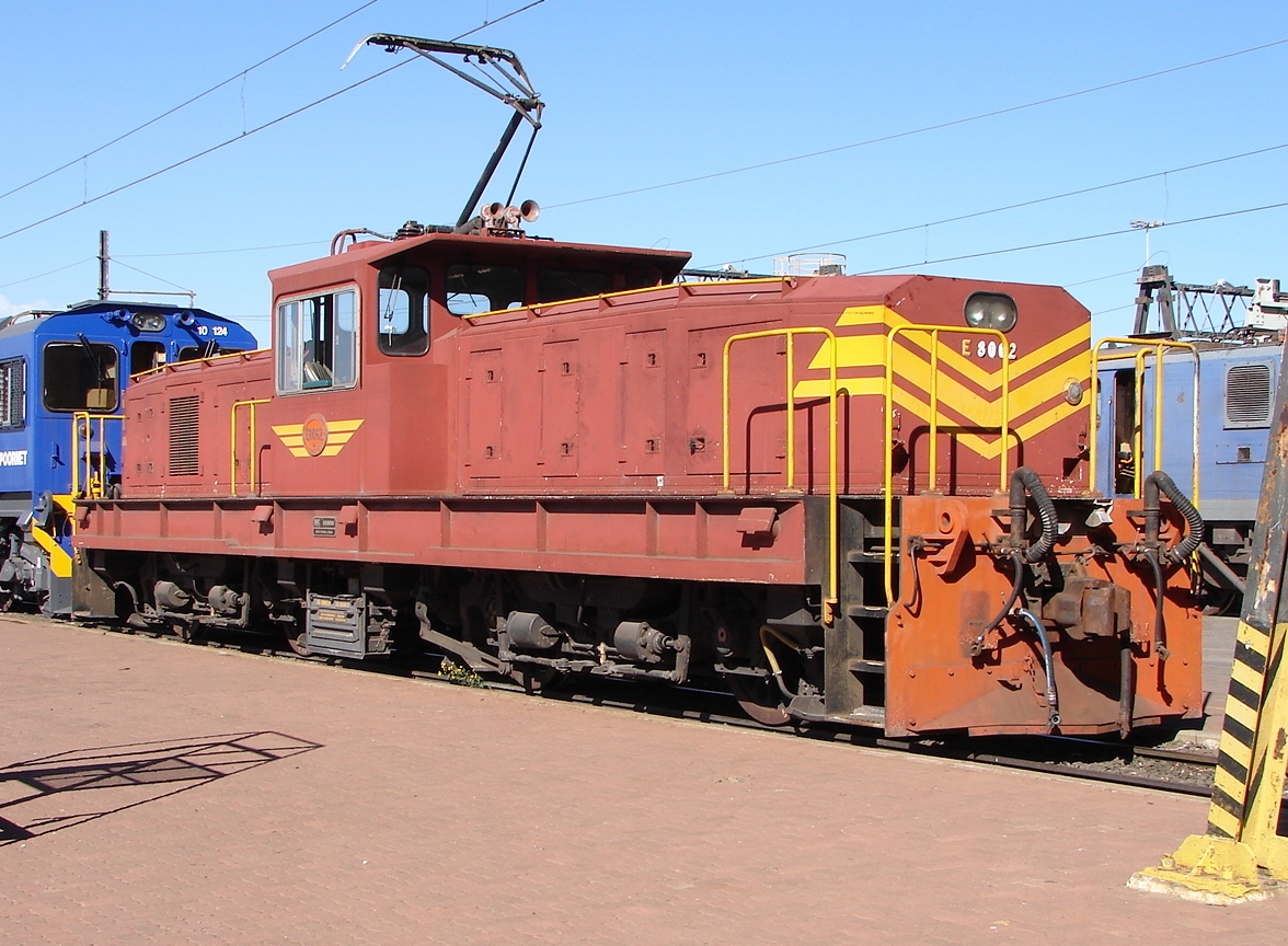 SAR Class 8E E8062 Location: Beaconsfield, Kimberley, Northern Cape